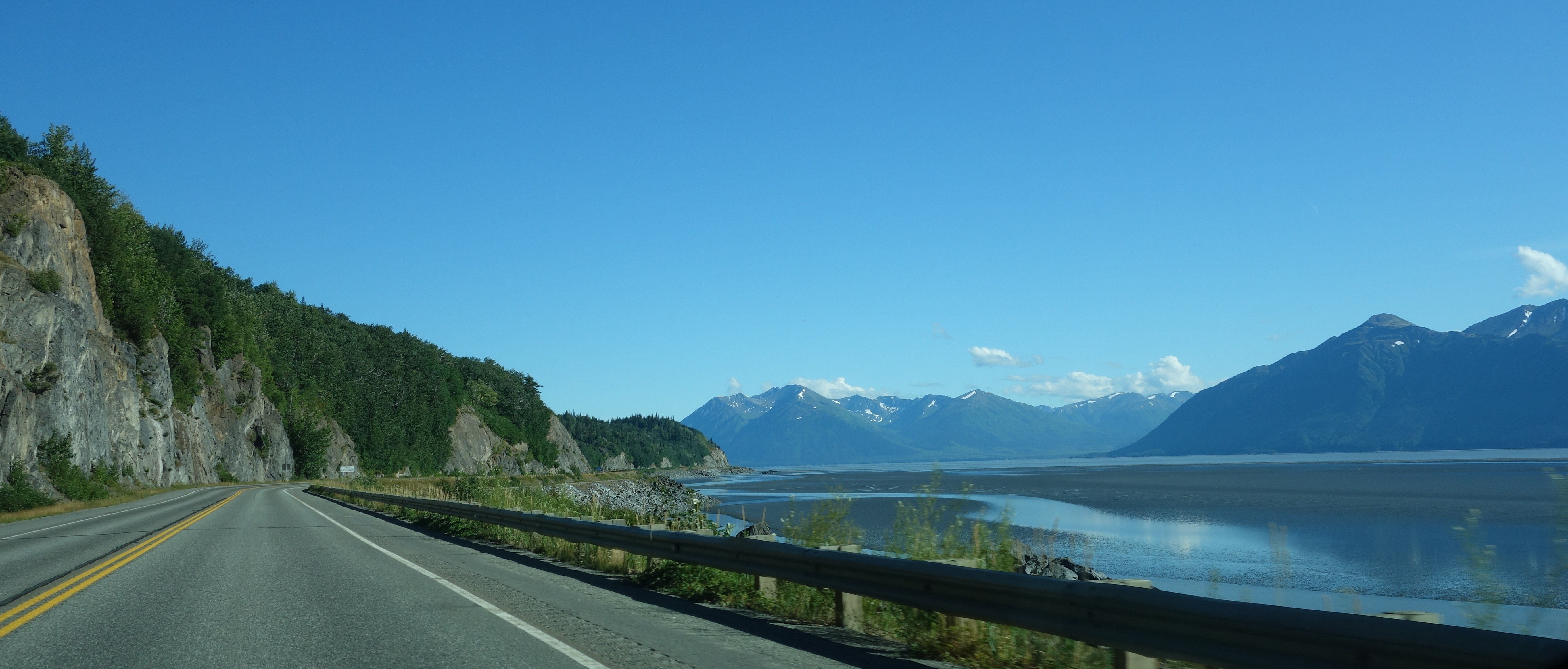 The Seward Highway, with Turnagain Arm to the right.